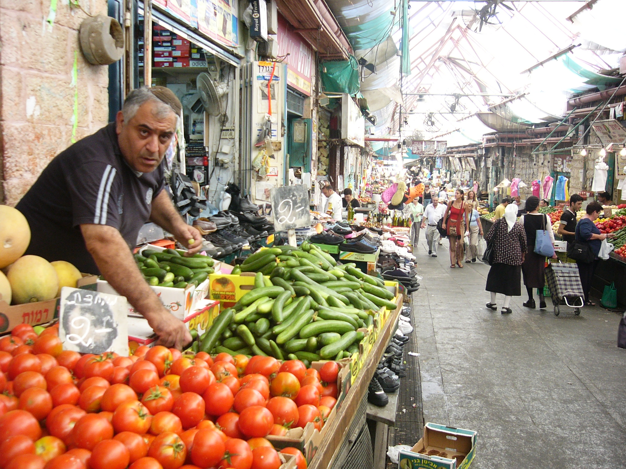 Mahane Yehuda Market. I took this picture myself